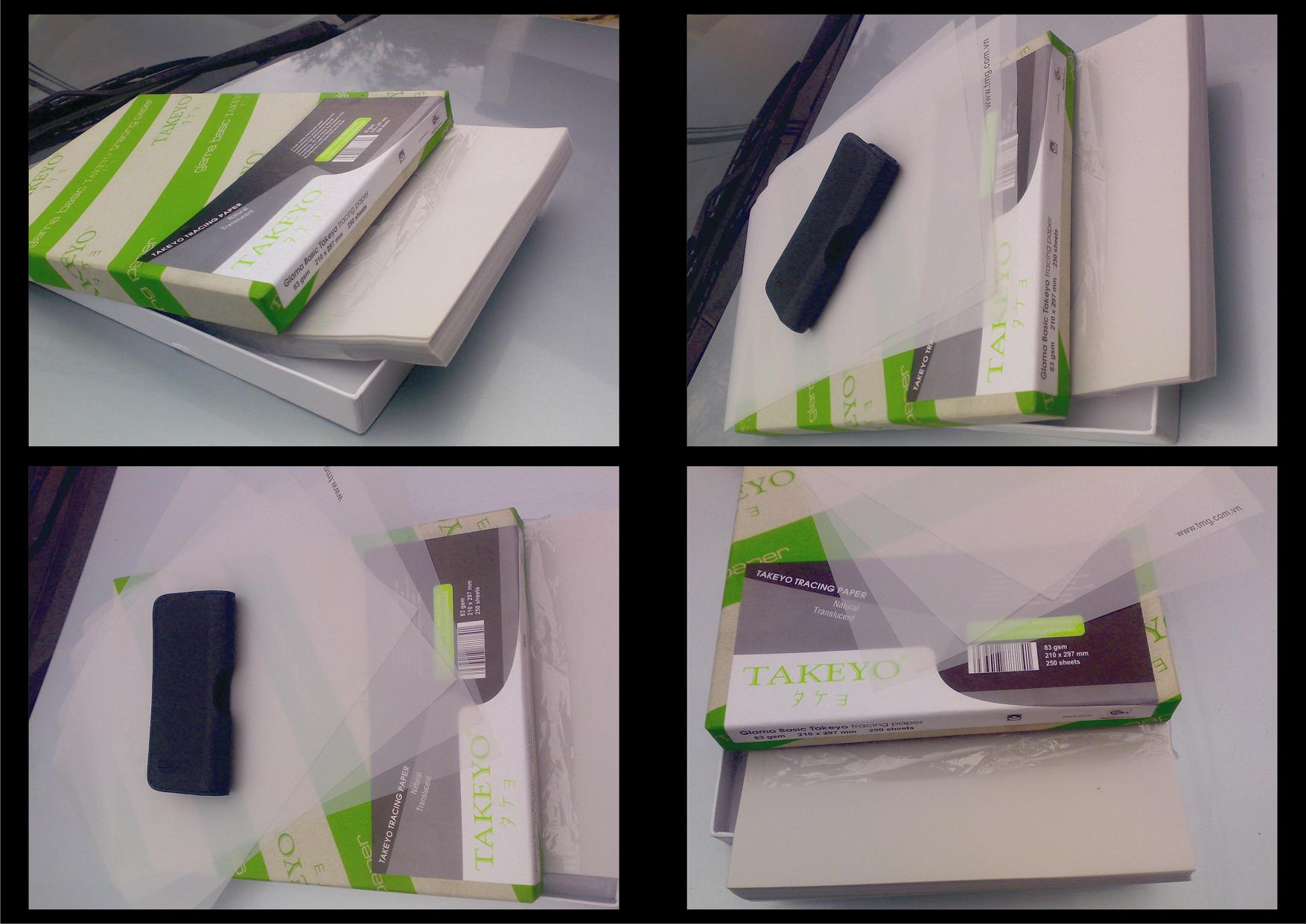 Samples of TAKEYO tracing paper